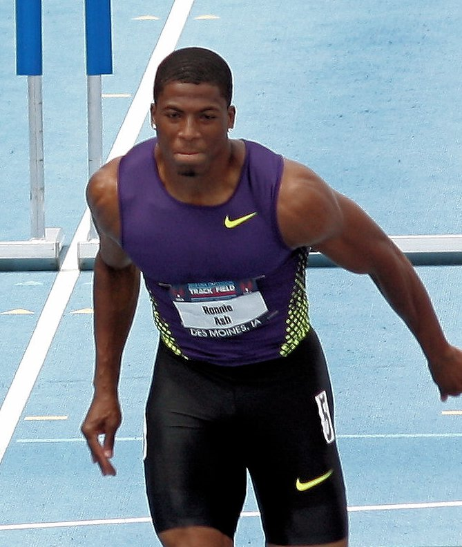 Ronnie Ash at the 2010 USA Outdoor Track and Fiels